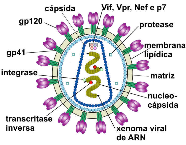 Diagram of the HIV virus.